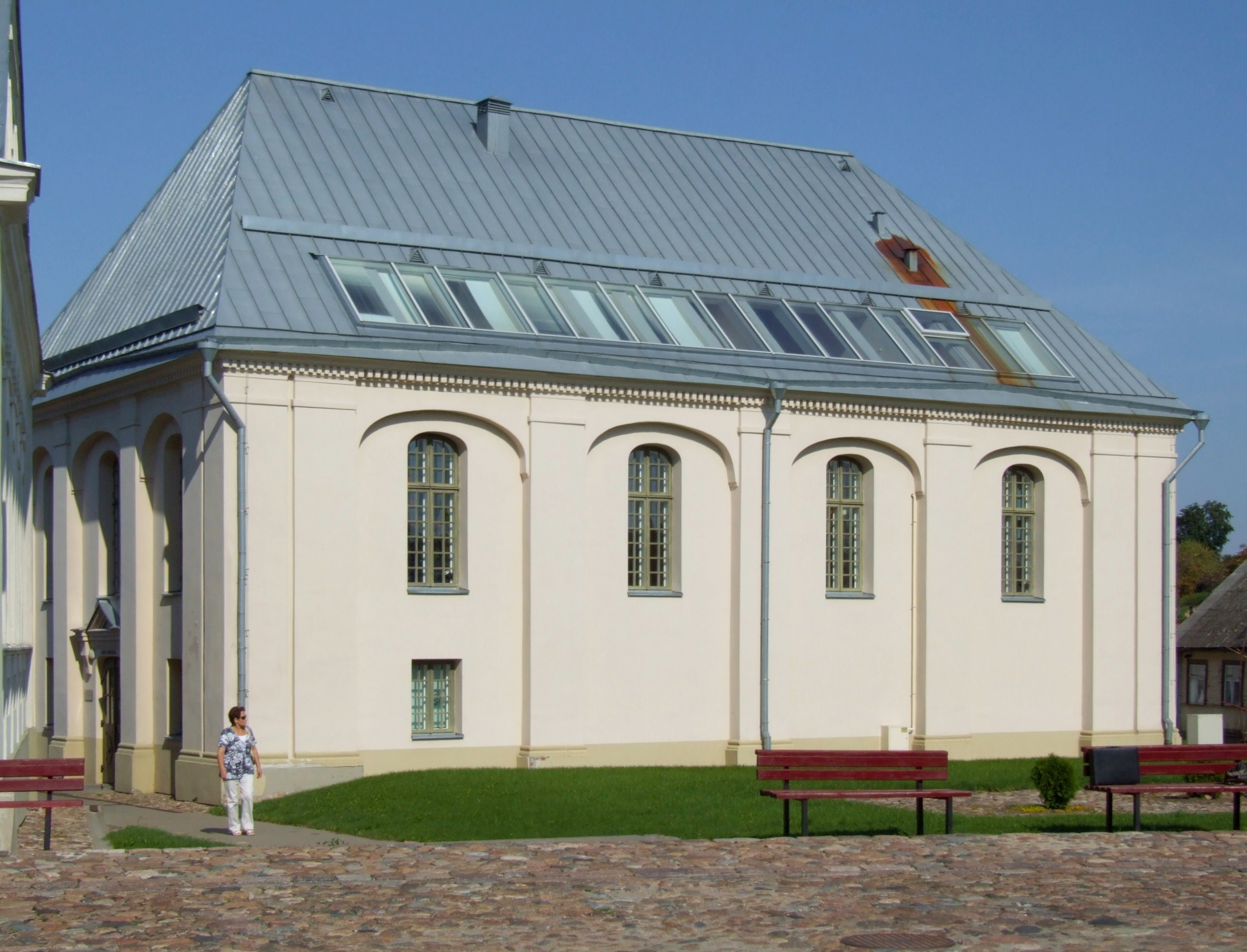 Old synagogue in Kėdainiai (Kiejdany)